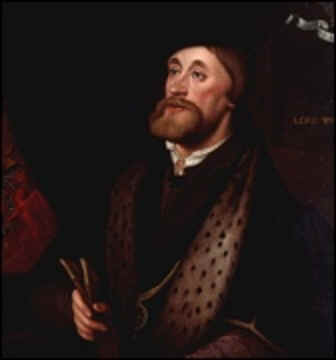 Thomas Wriothesley, 1st Earl of Southampton (1505-1550)